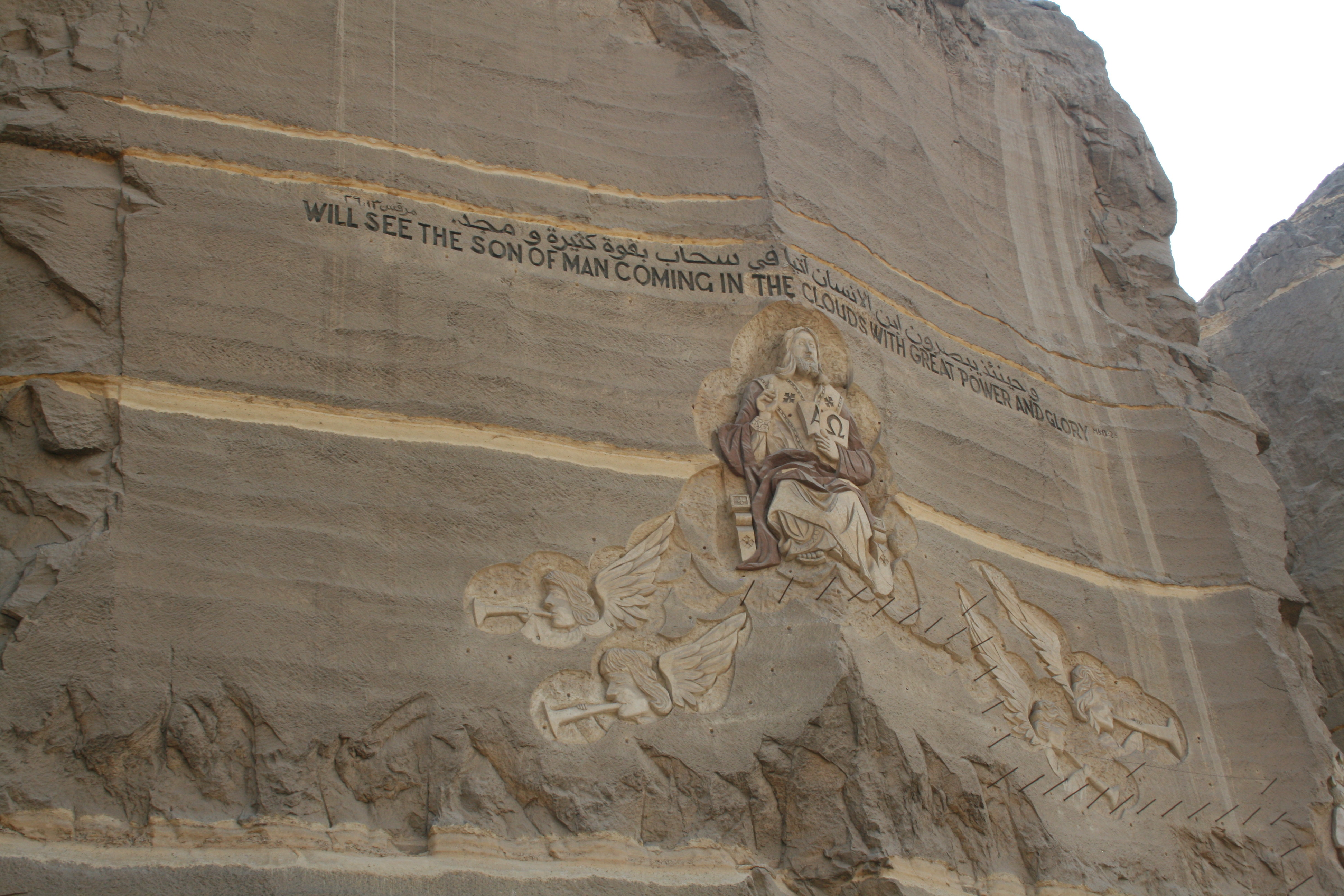 Church of Saint Simon, Muquattam, Cairo, Egypt